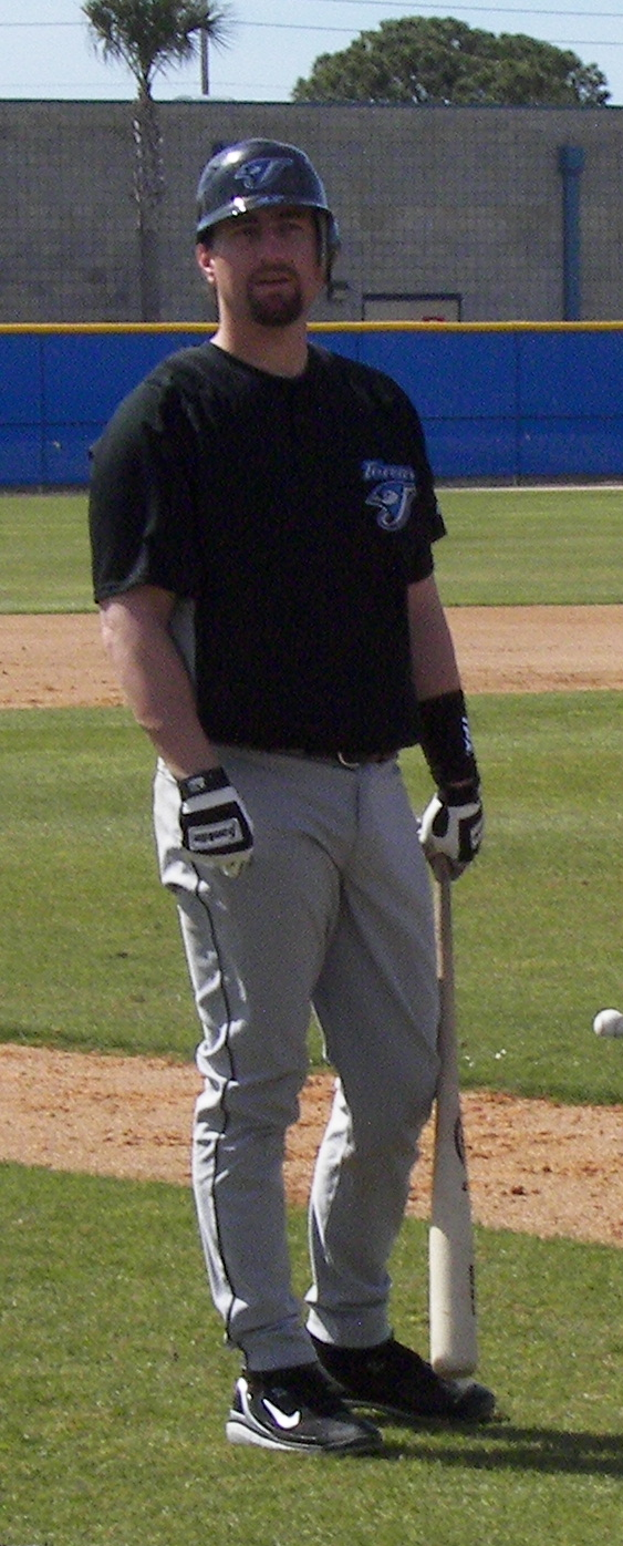 Toronto Blue Jays catcher Jason Phillips during a spring training workout at the Blue Jays' spring training complex in Dunedin, Florida.